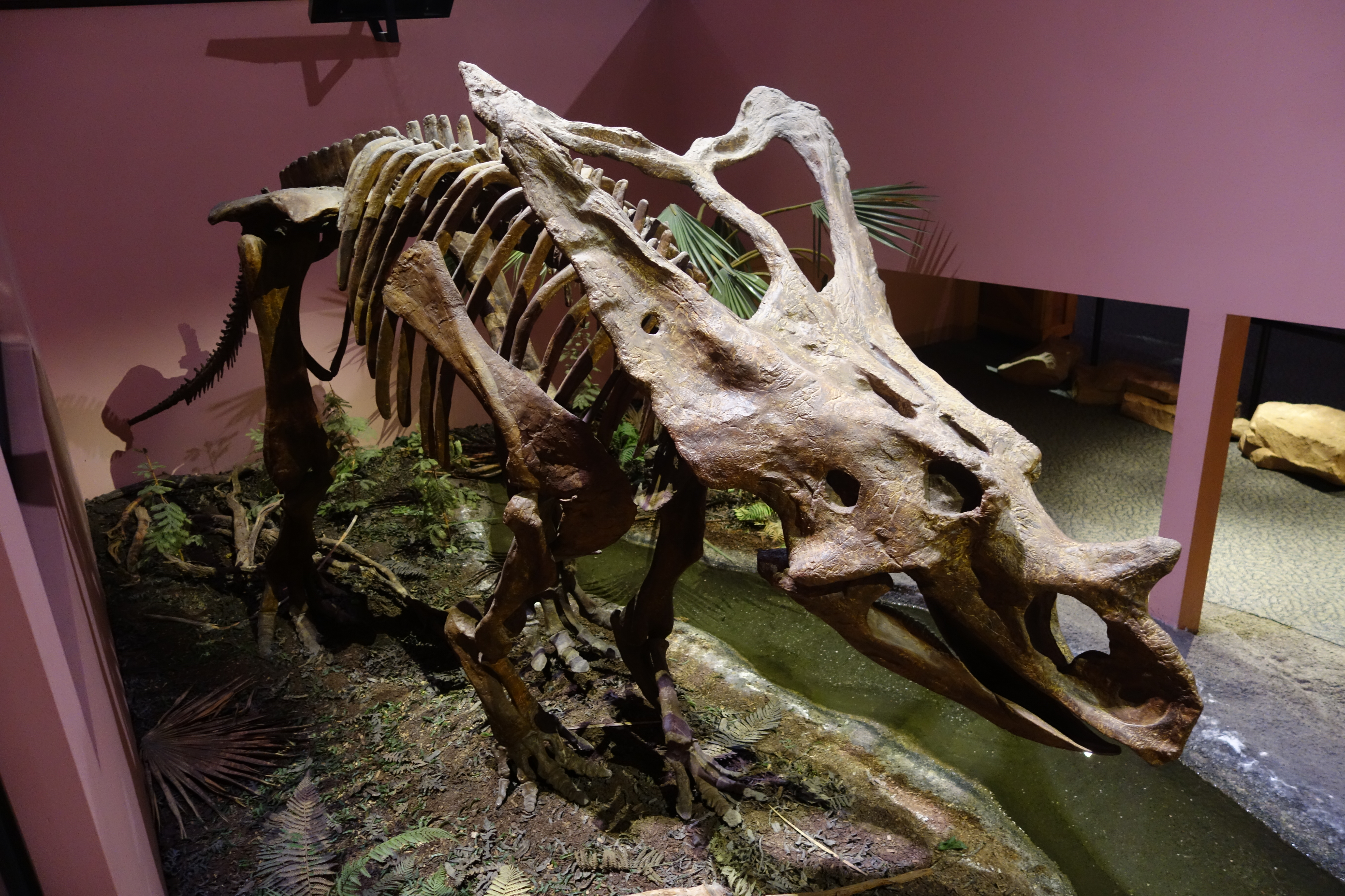 Chasmosaurus mounted cast, on display at the Museum of Ancient Life, Utah.